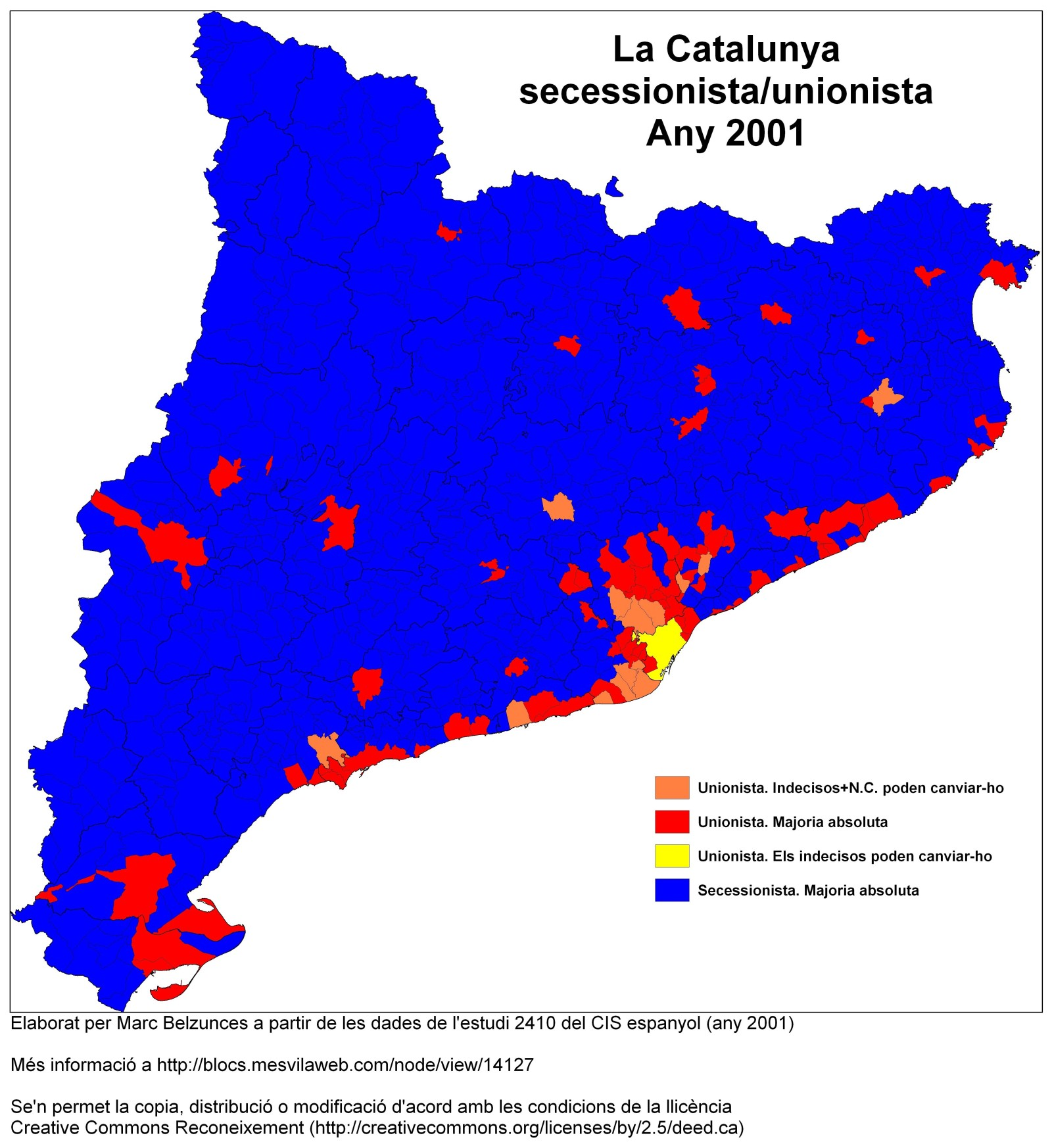 Map of Catalonia showing support/opposition to Catalonia's independence.